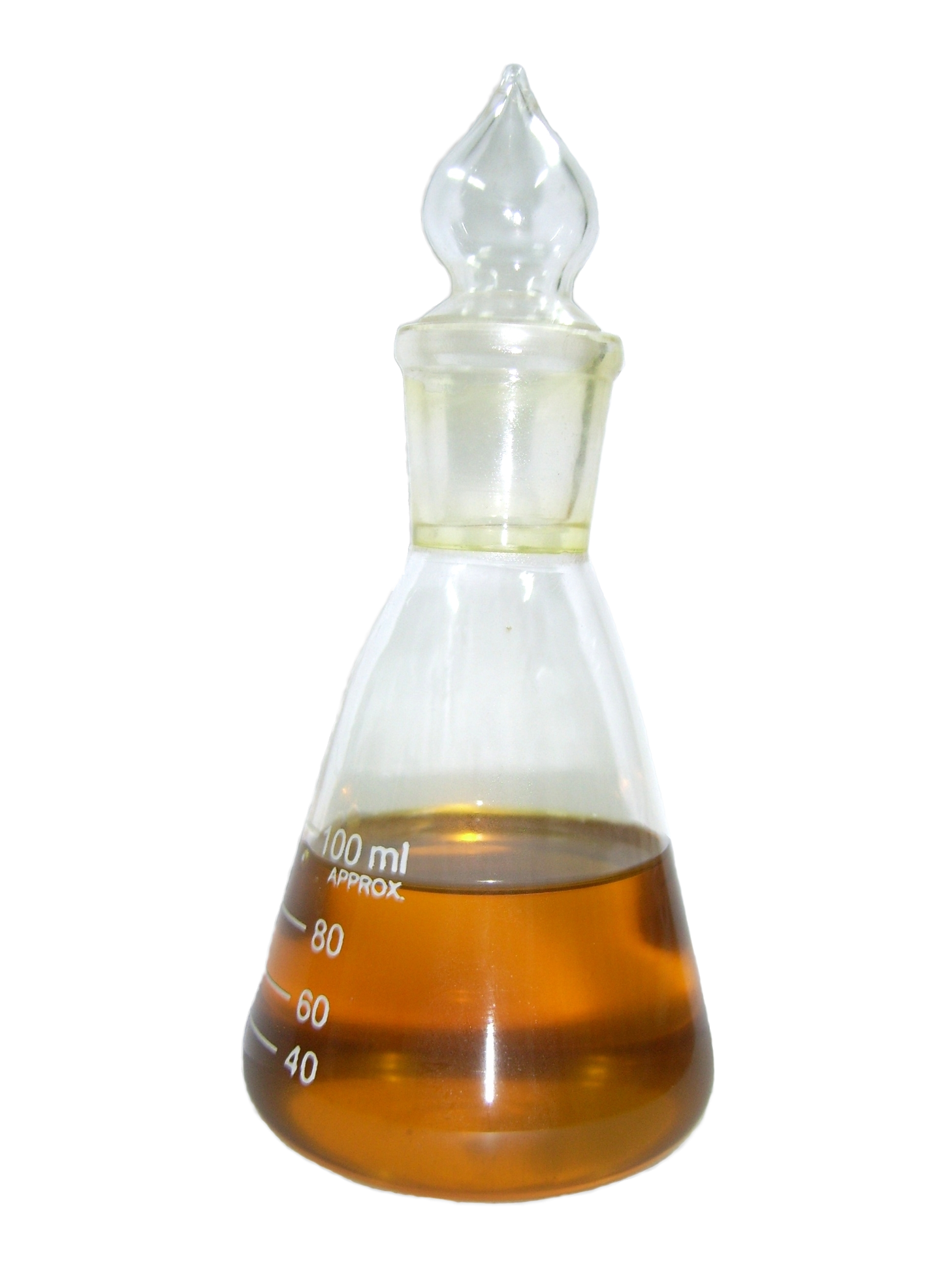 Biodiesel sample